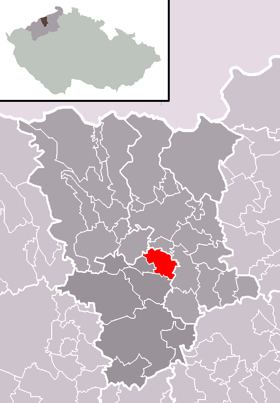 Location of Ohníč municipality within Teplice District and administrative area of Bílina as a Municipality with Extended Competence.